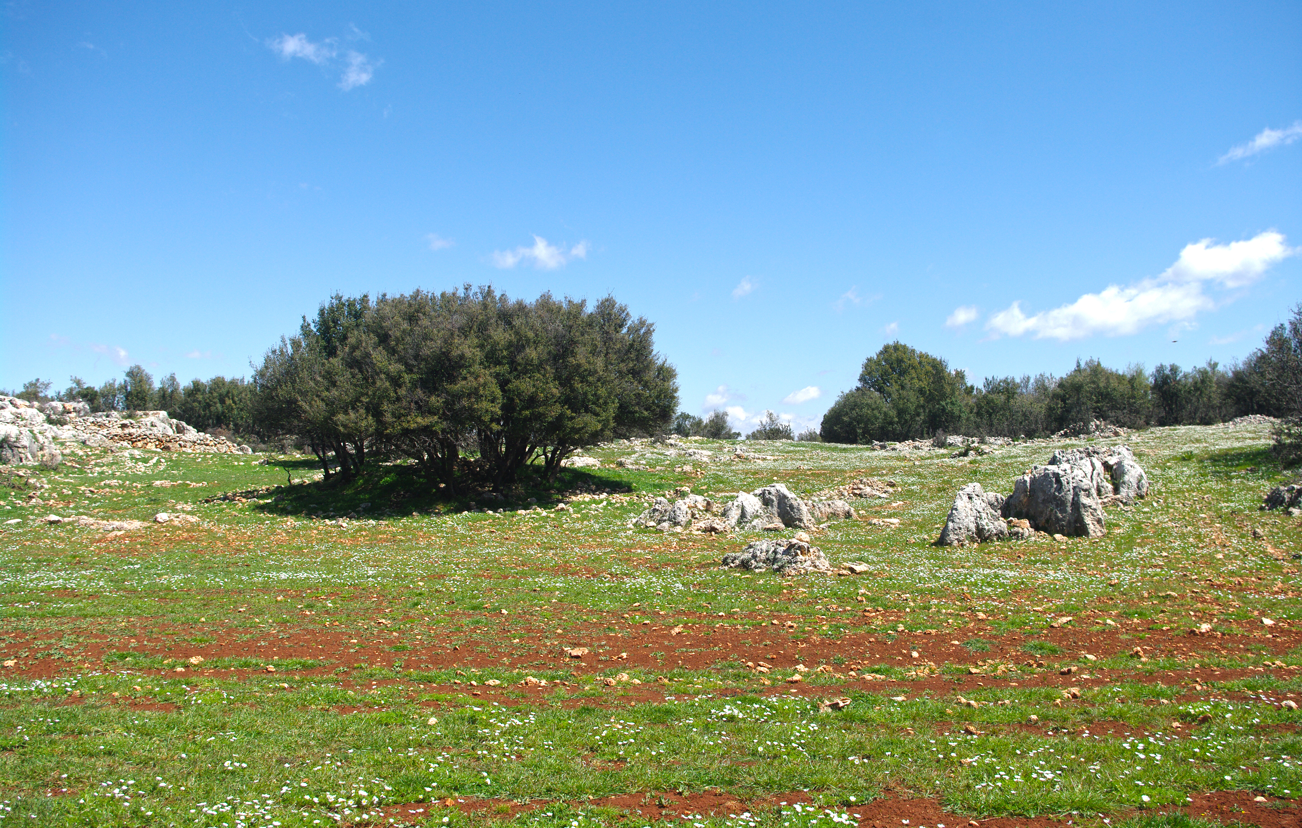 Kermes oak tree (Quercus coccifera) in Sömek, Silifke - Mersin, Turkey.